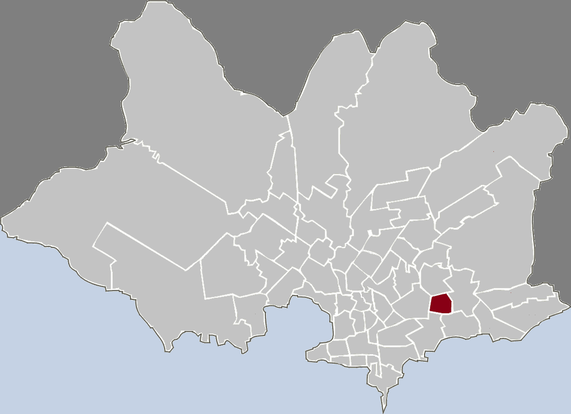 Map highlighting the given barrio in Montevideo.